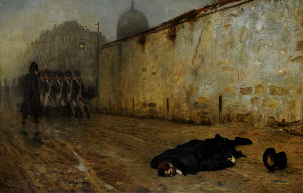 The Execution of Marshal Ney, by Jean Leon Gerome, oil on canvas. Michel Ney (1st Duc d'Elchingen, 1st Prince de la Moskowa (10 January 1769 – 7 December 1815), popularly known as Marshal Ney, was a French soldier and military commander during the French Revolutionary Wars and the Napoleonic Wars. He was one of the original 18 Marshals of France created by Napoleon. He was known as Le Rougeaud ("red faced" or "ruddy") by his men and nicknamed le Brave des Braves ("the bravest of the brave") by Napoleon. Sheffield Galleries and Museums Trust, UK